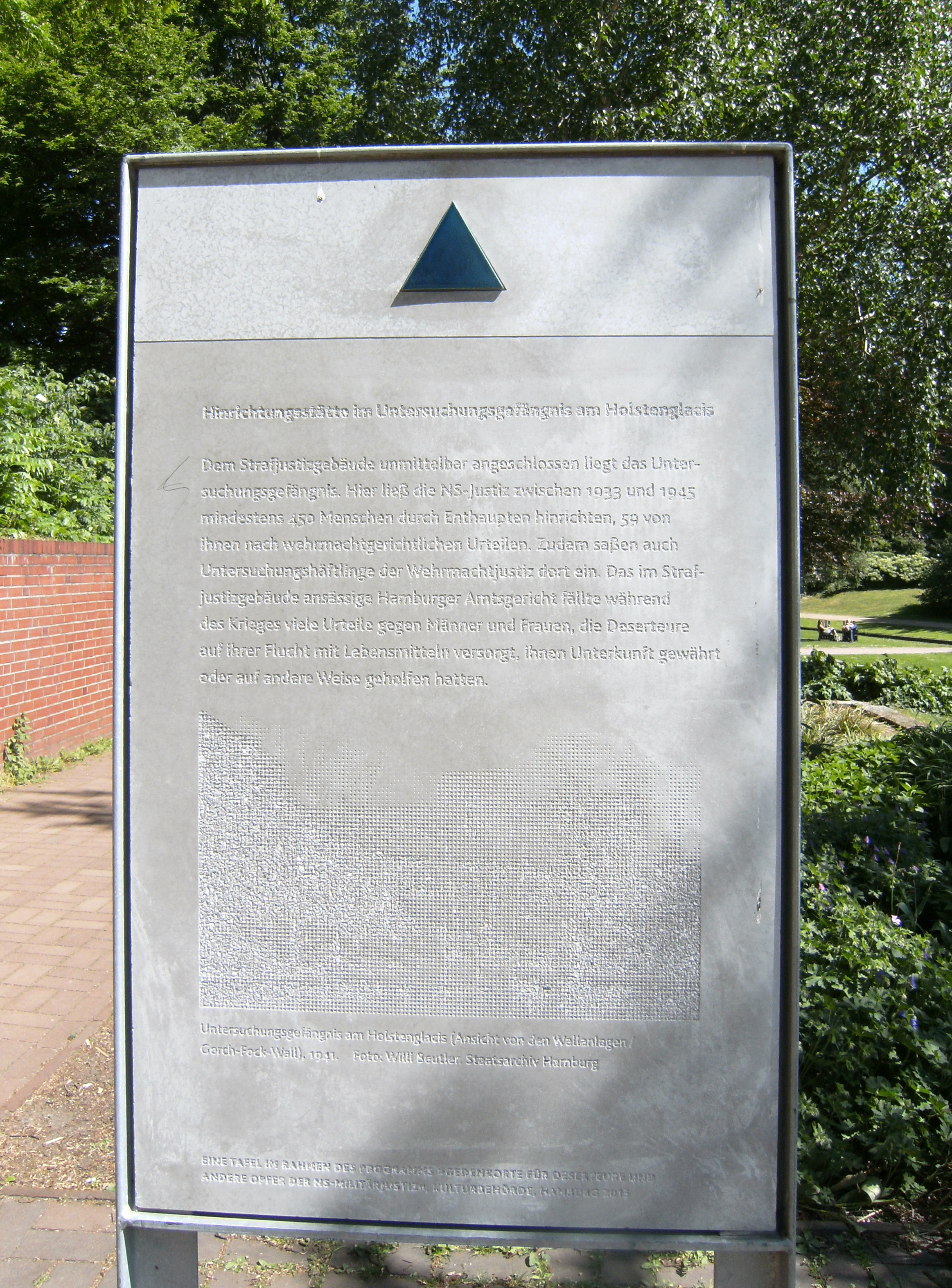 Commemorative plaque at the backside of Untersuchungshaftanstalt Hamburg, Germany. Desertion - execution.